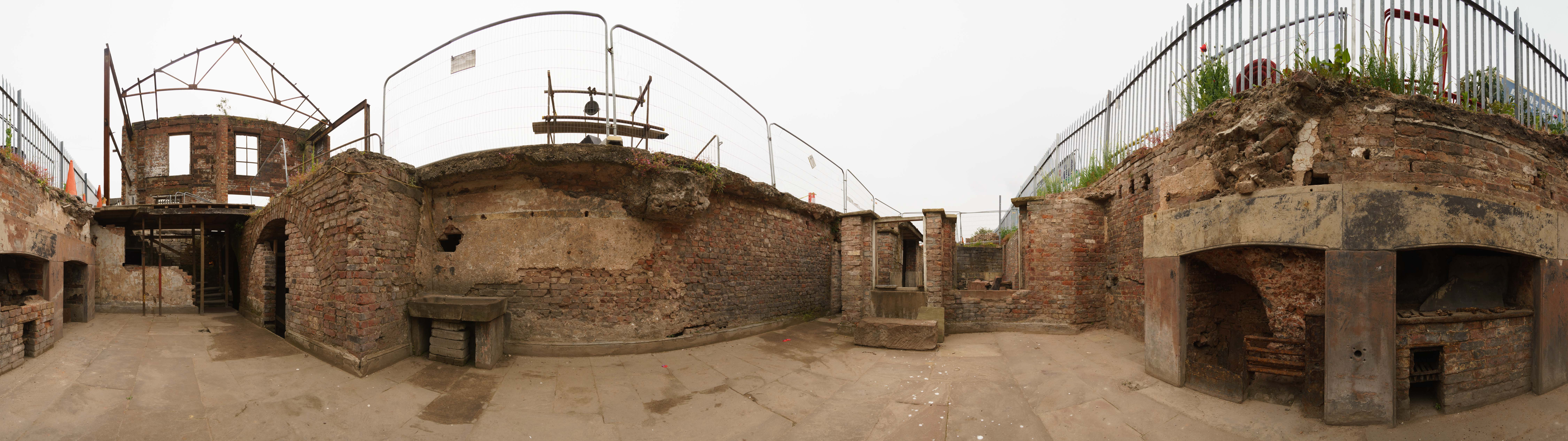 The basement level of Joseph Williamson's house in Mason Street, Liverpool. The facade of the house is visible in the distance, and in the opposite direction are the remnants of window frames, which would have likely led to a garden below ground level. The partially-bricked archway leads to the 'Wine Bins' and other areas of tunnels, while the 'Banqueting Hall' lies directly beneath the camera, with the floor approximately 30ft below. Photo: Kyle May, Friends Of Williamson's Tunnels